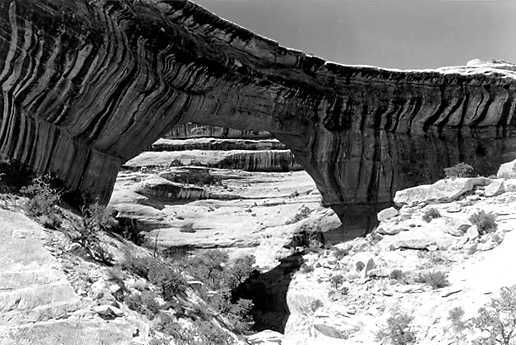 Approximate Year: 1935 Park: Natural Bridges NM Photographer: Grant, George A. Description: The Augusta, or Sipapu Bridge in White Canyon from above.